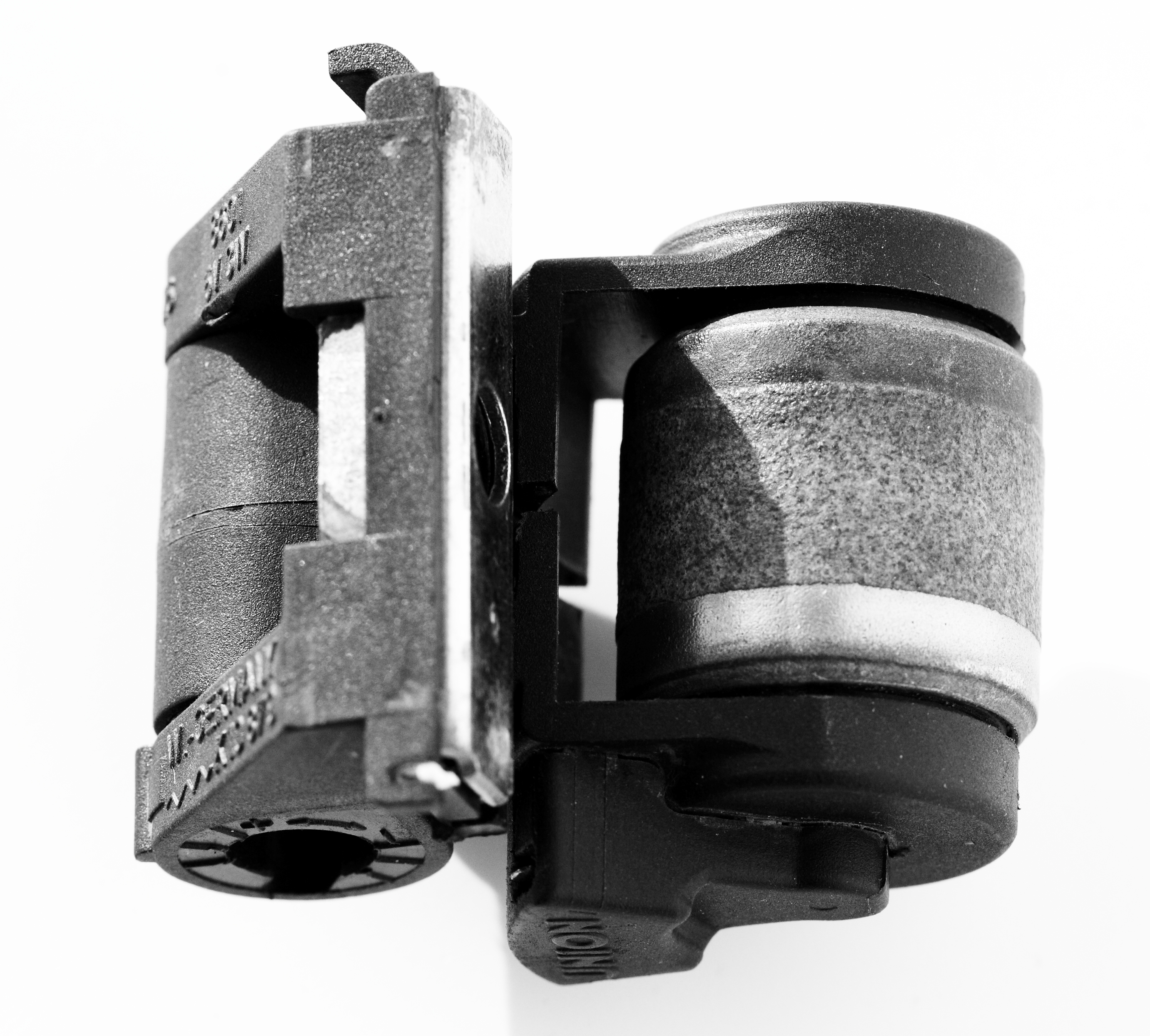 Bottom bracket dynamo (used). The clamp to the bike is on the left, the drum, which rolls on the wheel is on the right and two contact pins for the bike light are on the bottom of the picture.